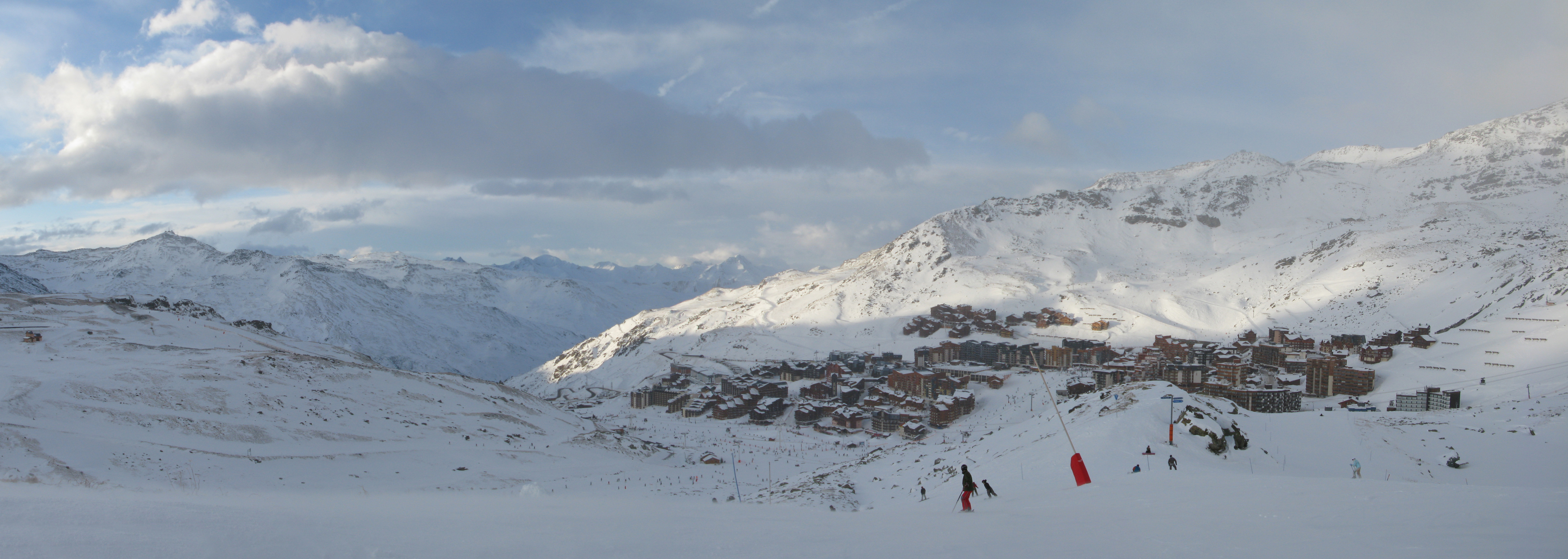 Panoramic photograph of Val Thorens in December 2008